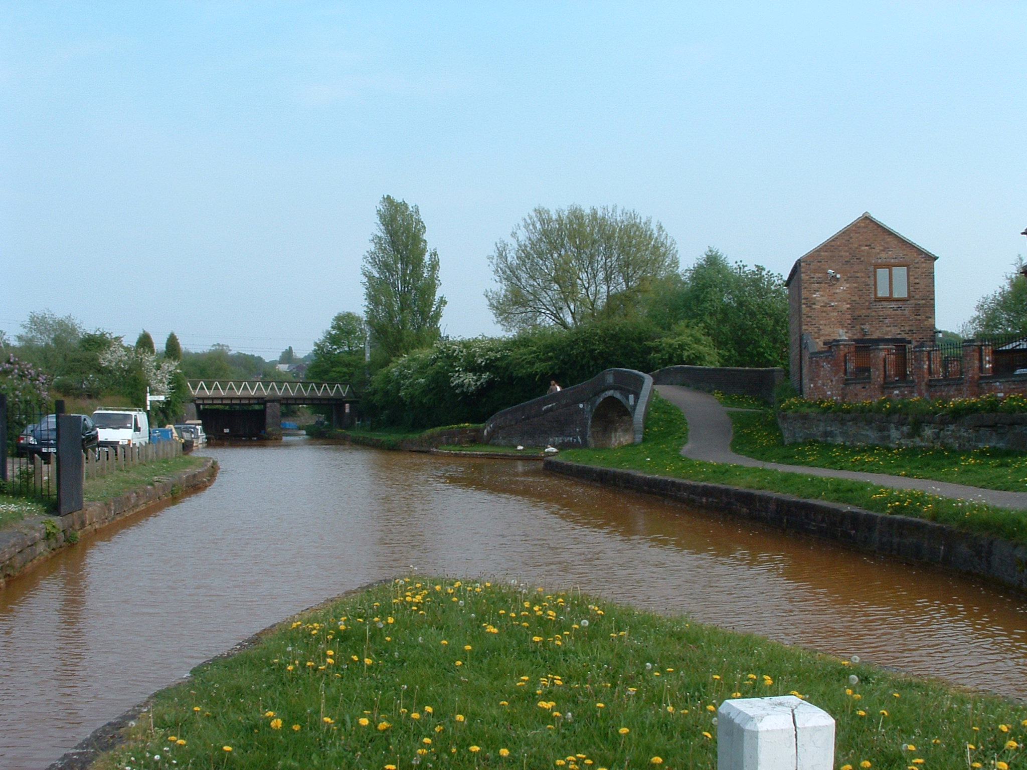 Harding Junction on the Trent and Mersey Canal - the junction with the Hall Green Branch (the southern end of the Macclesfield Canal), near Kidsgrove, England..